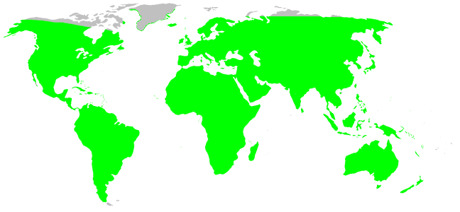 Lycosidae habitat distribution, drawn after Platnick: World Spider Catalog 7.0. This is not a precise rendering of the distribution! If you have better information, please replace this map, or send me the info, and i will redraw it.